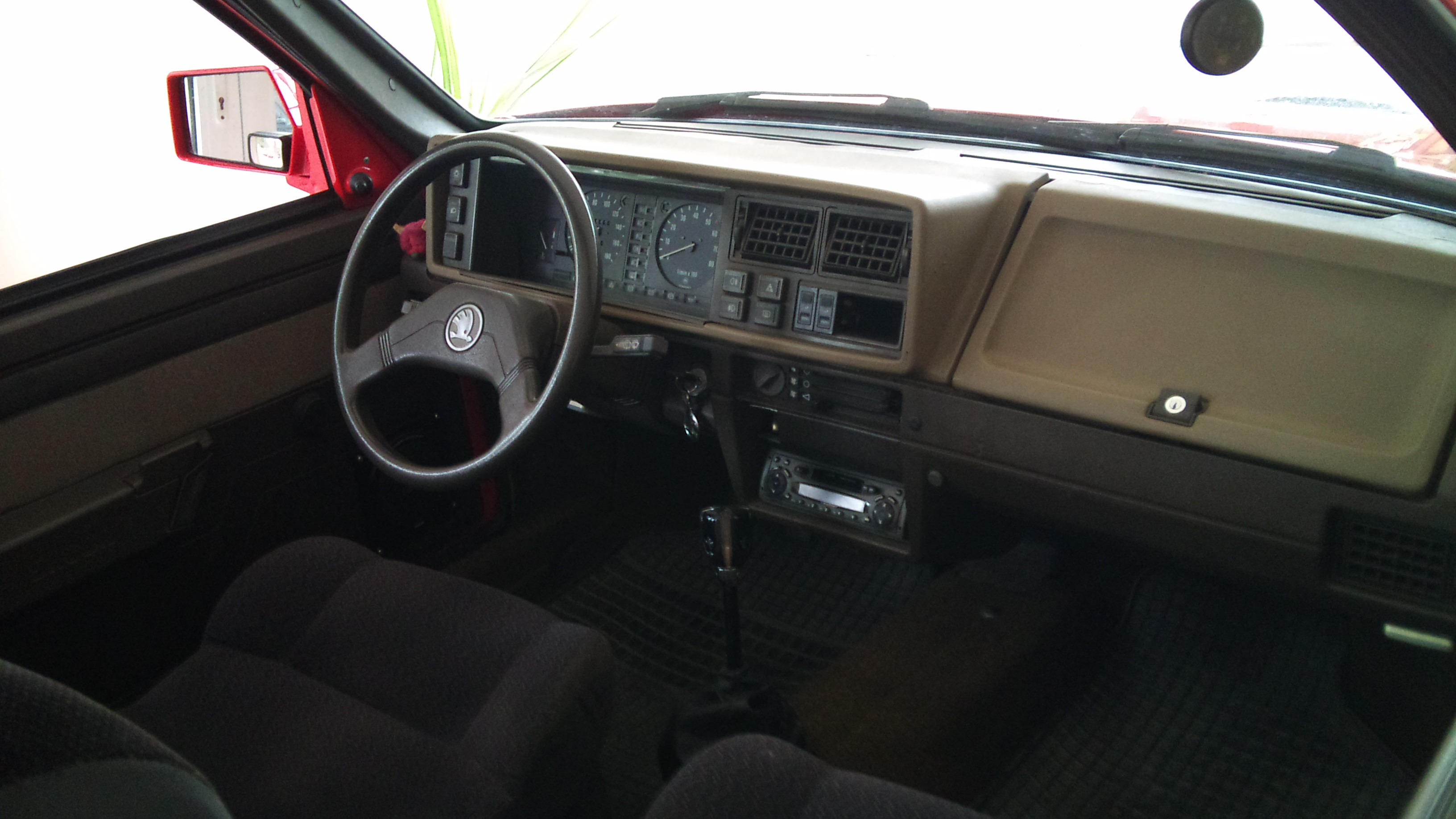 Look inside of the Skoda Favorit